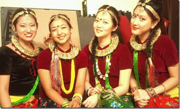 beauty_with_purpose_miss_uk_nepal_nepali_tradiional_dress_event (1)